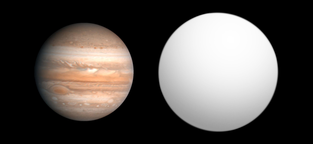 Comparison of best-fit size of the exoplanet WASP-13 b with the Solar System planet Jupiter, as reported in the Open Exoplanet Catalogue[1] as of 2015-11-14. ↑ Open Exoplanet Catalogue (2015-11-14). Retrieved on 2015-11-14.